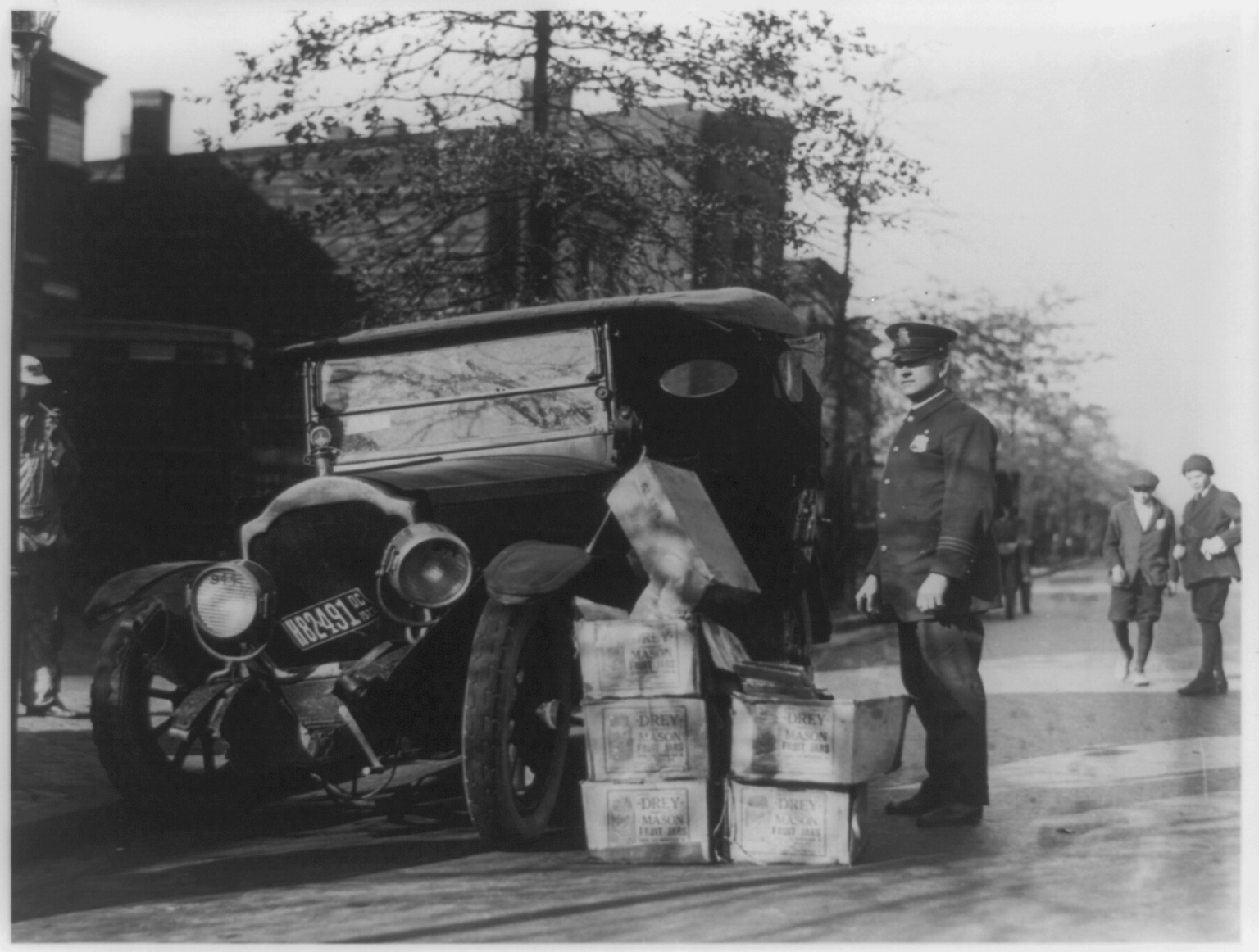 Black-and-white photograph of policeman standing alongside wrecked car and cases of moonshine liquor. Courtesy of the Prints and Photographs Division, Library of Congress, Washington, D. C.